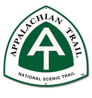 Appalachian Trail logo.